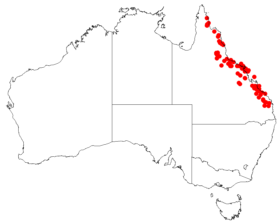 Parsonsia plaesiophylla Occurrence data for Australia from Australasian Virtual Herbarium downloaded 22 December 2018